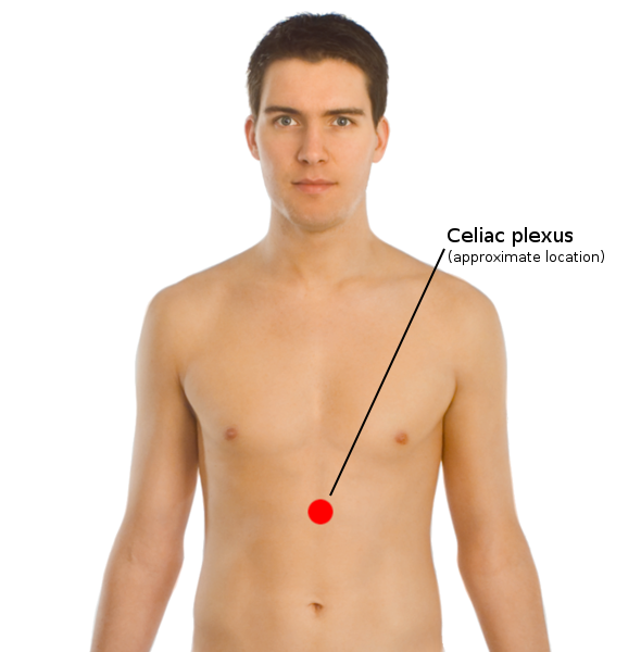 Approximate location of the celiac plexus in the coronal plane Model:Mikael Häggström.